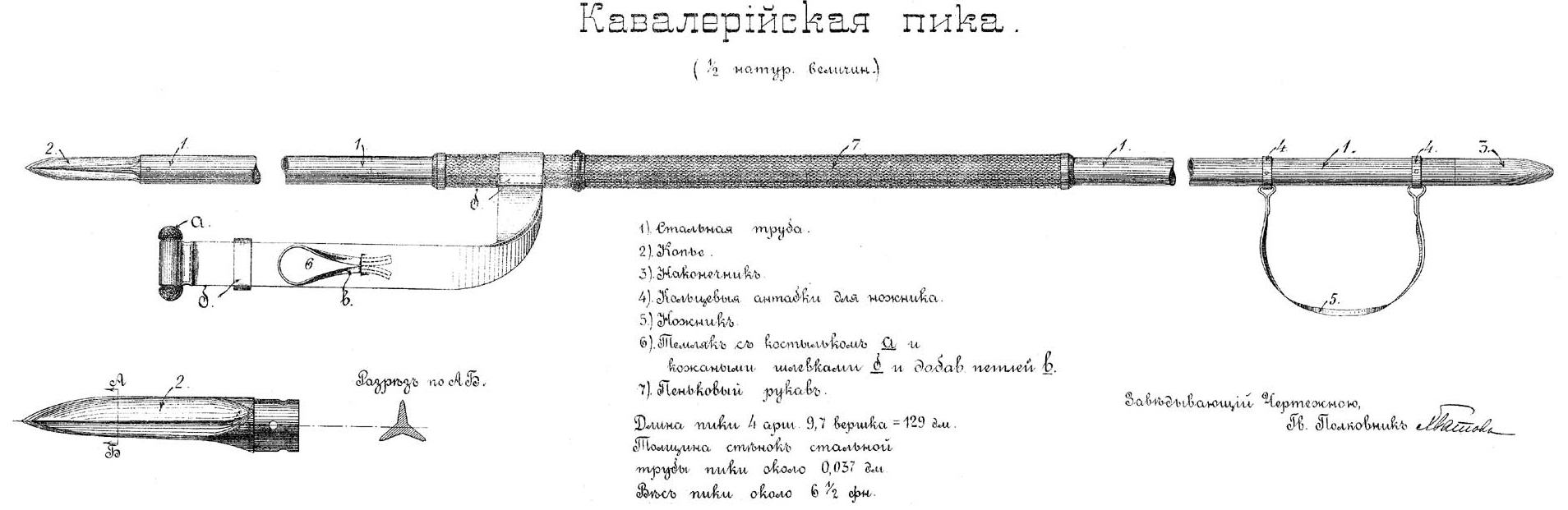 Russian cavalry pike, 1910 model.